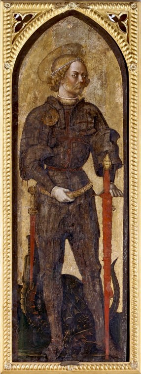 Maestro Monticelli (Gerolamo Bembo)San-Giorgio, 1460-1465 circa, Cremona, Museo Civico Ala Ponzone